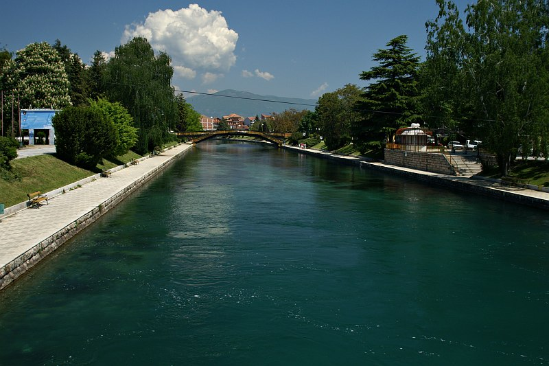 The Crni Drim ("Black Drim") River at Struga, near the point where it flows out of Lake Ohrid